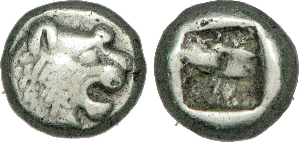 Hemi-hecte du royaume de Lydie Date : c. 610-550 AC.